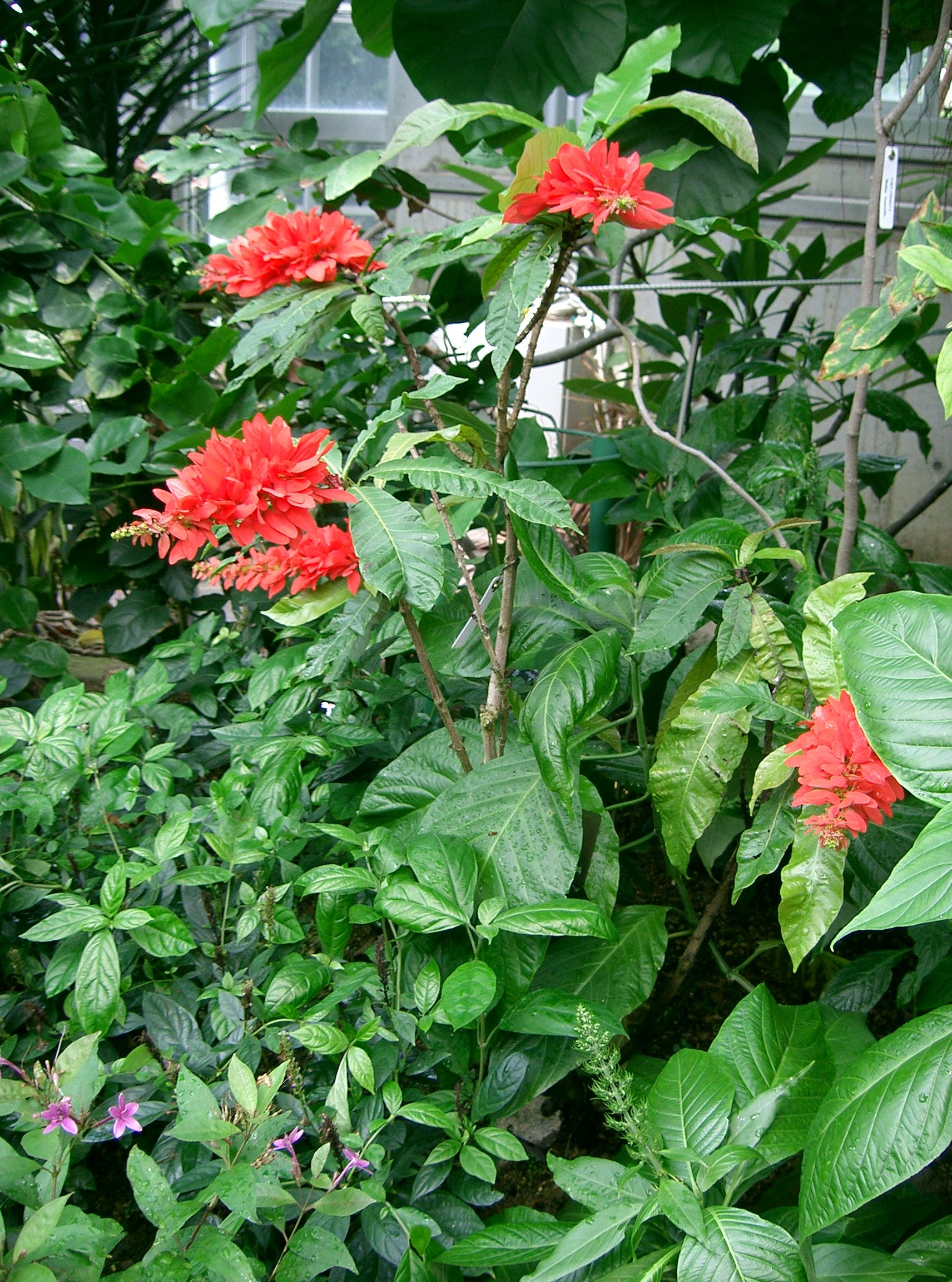 Scientific name: Warszewiczia coccinea. Place: Osaka-fu Japan